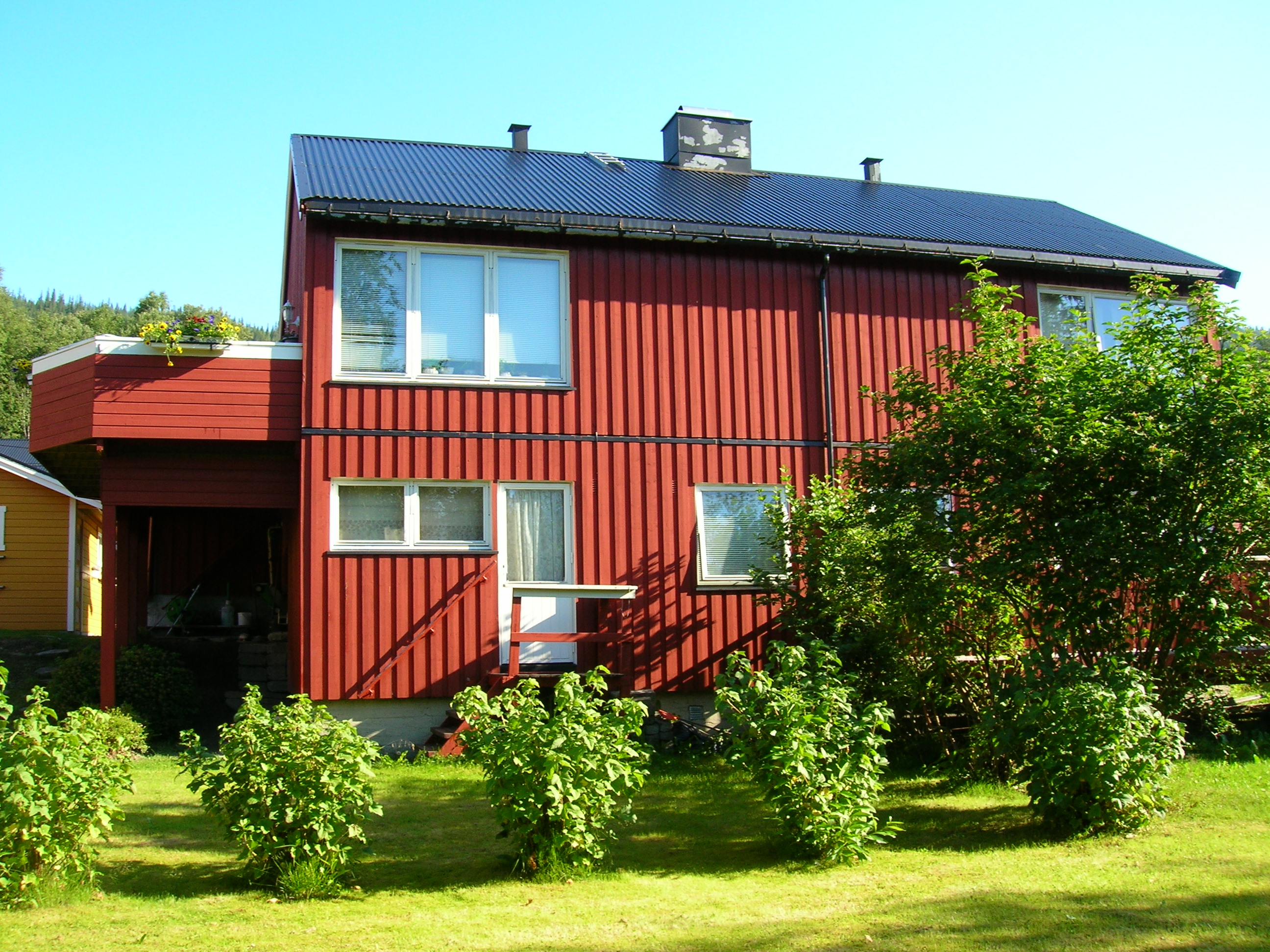 Lilleeng housing cooperative on Selfors, 4 km north of Mo i Rana, Rana municipality, county of Nordland, Norway, Photo 8 August, 2007 with a Nikon Coolpix 5600 5,1 Megapixel camera.